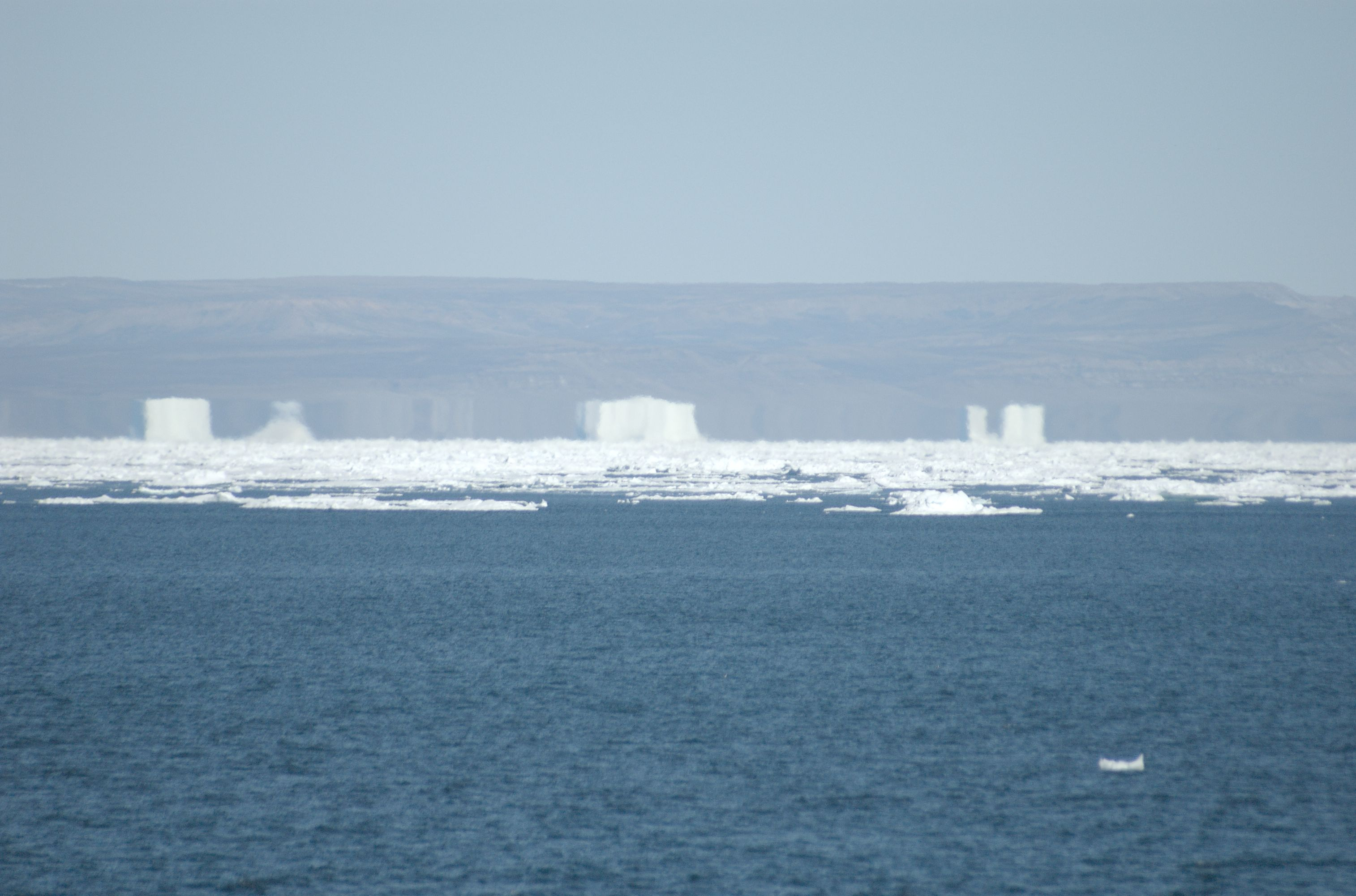 A superior mirage of sea ice and land, taken in Scoresby Sund, probably somewhere near Milne Land.